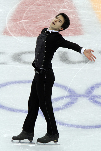 Patrick Chan at the 2010 Winter Olympics.